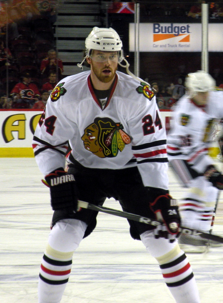 Chicago Blackhawks forward Martin Havlat during warm up prior to a National Hockey League playoff game against the Calgary Flames, in Calgary.